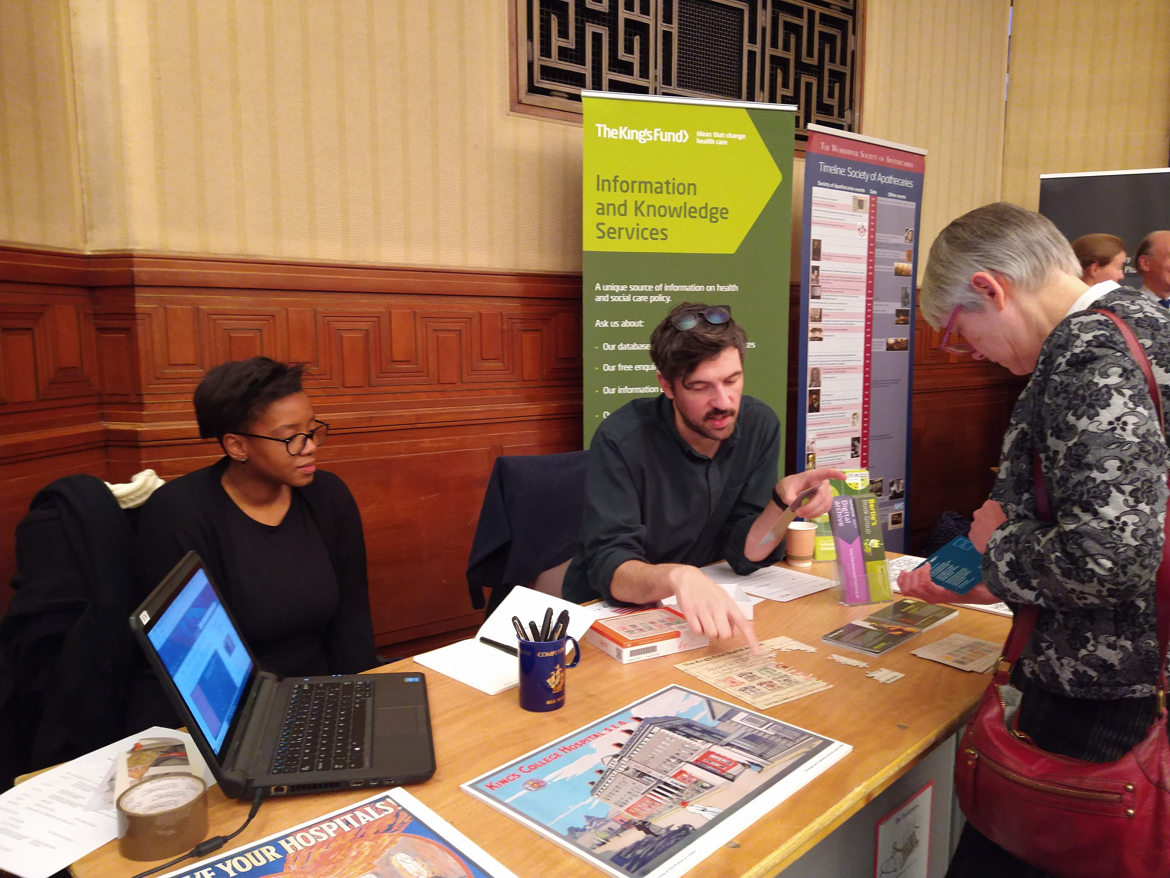 University of London School of Advanced Study History Day 2019